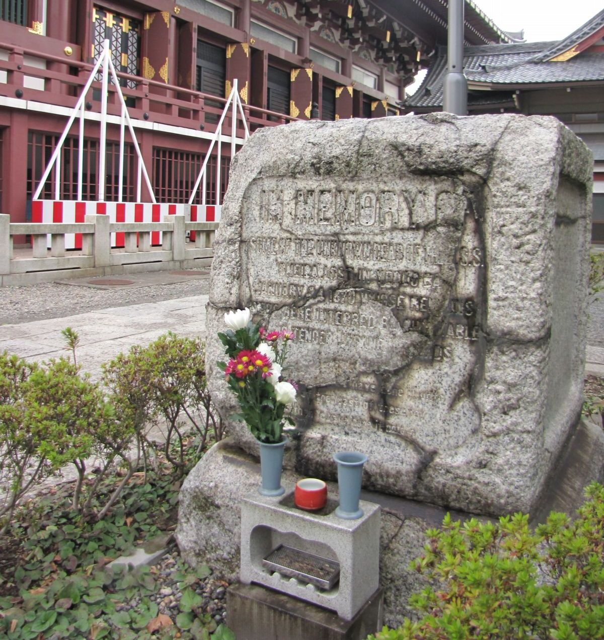 Gravestone to the dead of the USS Oneida, lost in a collision with the P&O steamer "City of Bombay" on January 23, 1870. The bodies were found in the wreck after it was sold to a Japanese salvage firm and their ashes interred here. There were once metal lettering, but they were apparently pried off and melted for the war effort during World War II. IN MEMORY OF SOME OF THE UNKNOWN DEAD OF THE U.S.S. ONEIDA, LOST IN YEDDO BAY JANUARY 24, 1870 WHOSE REMAINS WERE HERE INTERRED